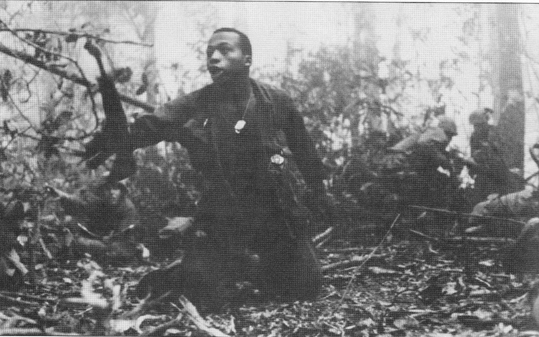 From Joel D. Meyerson, Images of a Lengthy War. Washington DC: US Army Center of Military History, 1986. This photo looks like it is of Mahlon S Jenkins, A/1/503d - 173rd Airborne Brigade, and was taken during the battle of Dak To on Hill 882 (1967).